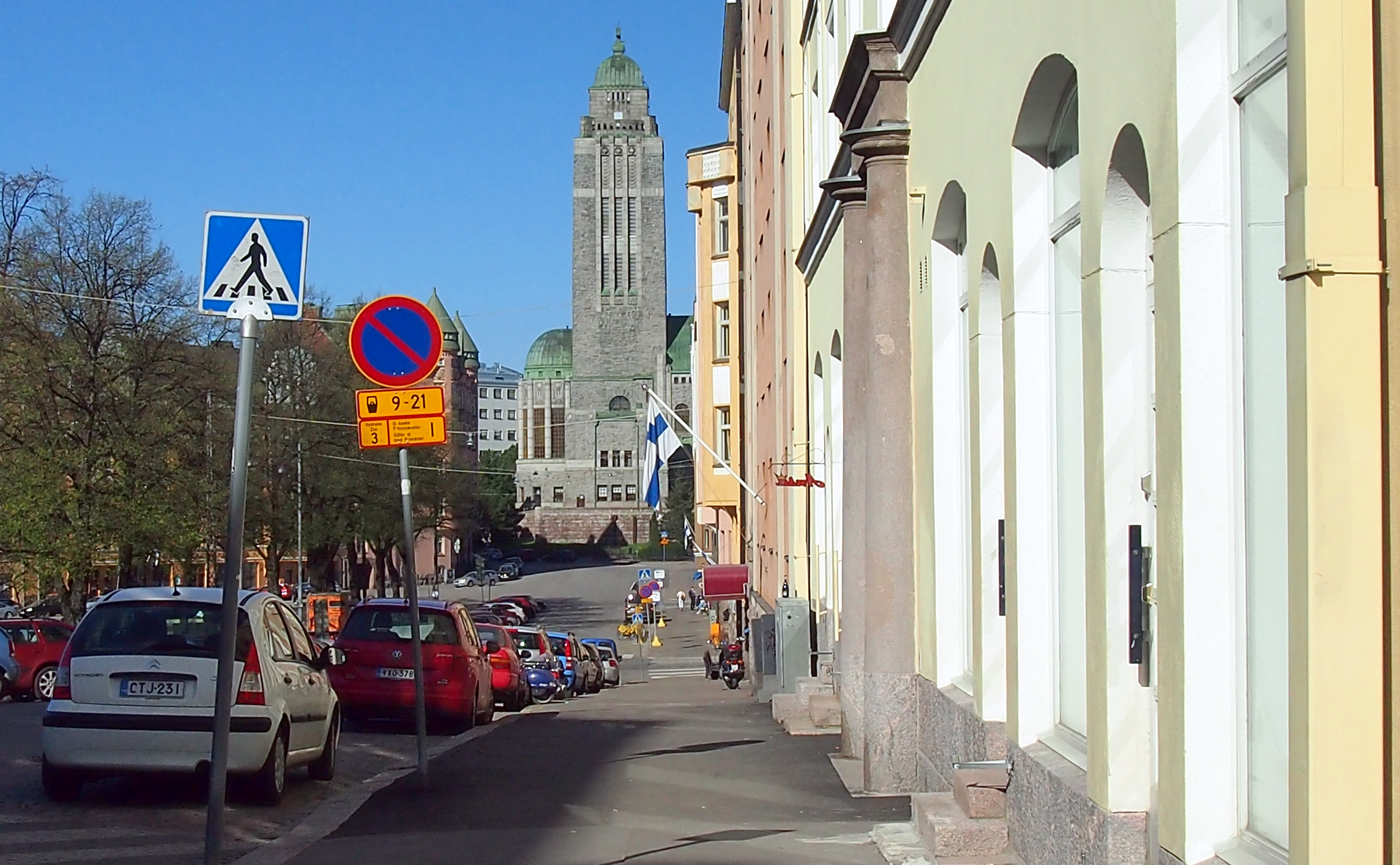 The street Agricolankatu, Helsinki, Finland